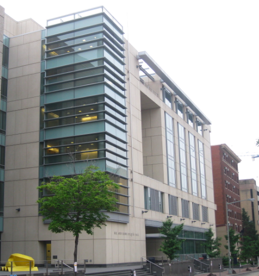 Duques Hall is home to the George Washington University School of Business. It is located on 22nd and G Streets.